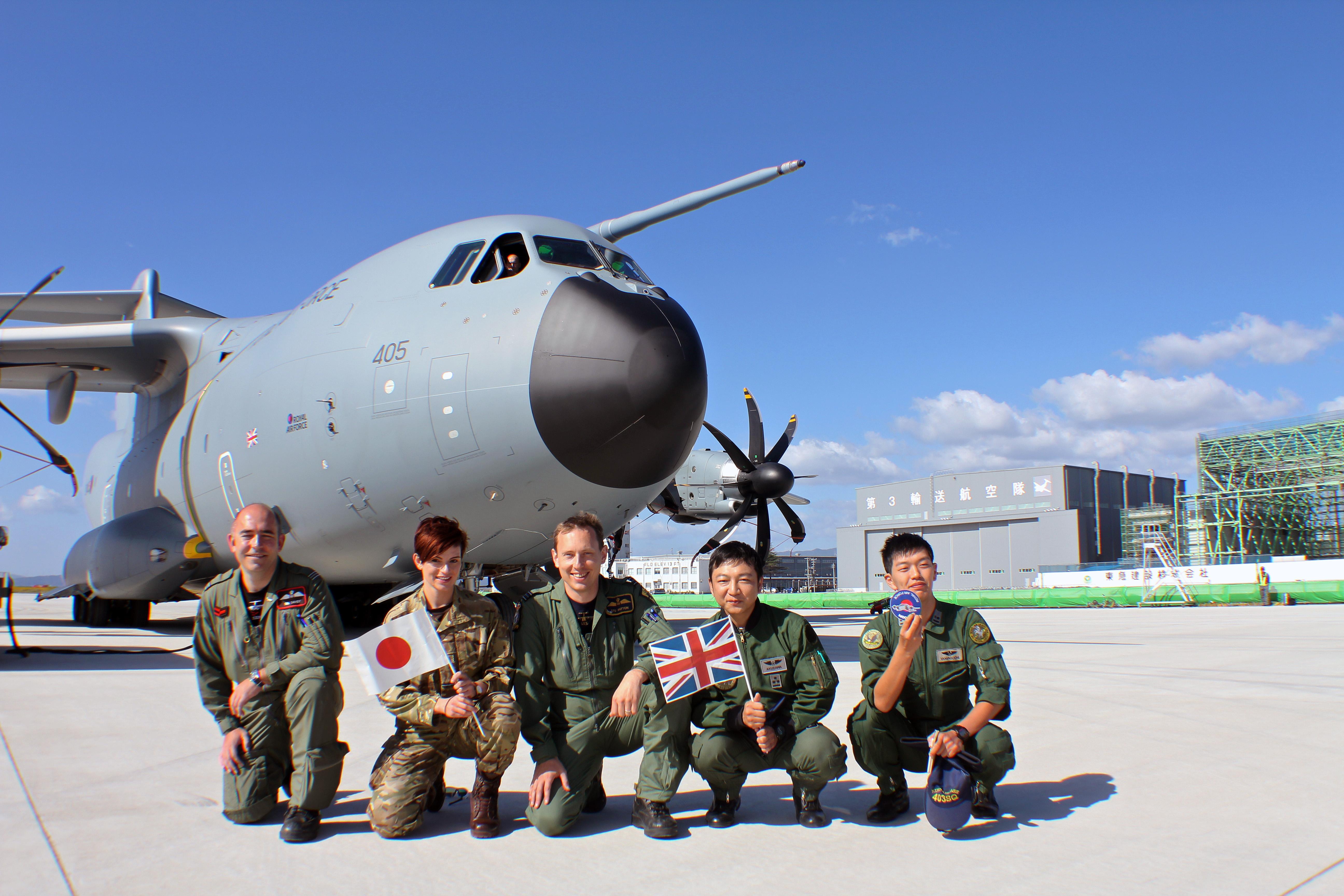 The Royal Air Force (RAF) A400M Atlas transport aircraft visited Japan during 23-25 October 2015. The aircraft landed at Miho Base (Tottori prefecture) of the Japanese Air Self Defence Force (JASDF). Crew from 70 Squadron and 24 Squadron based in RAF Brize Norton met with counterparts in the JASDF 403 Squadron of the 3rd Tactical Airlift Wing. This was the first time for an RAF aircraft to land in a JASDF base.